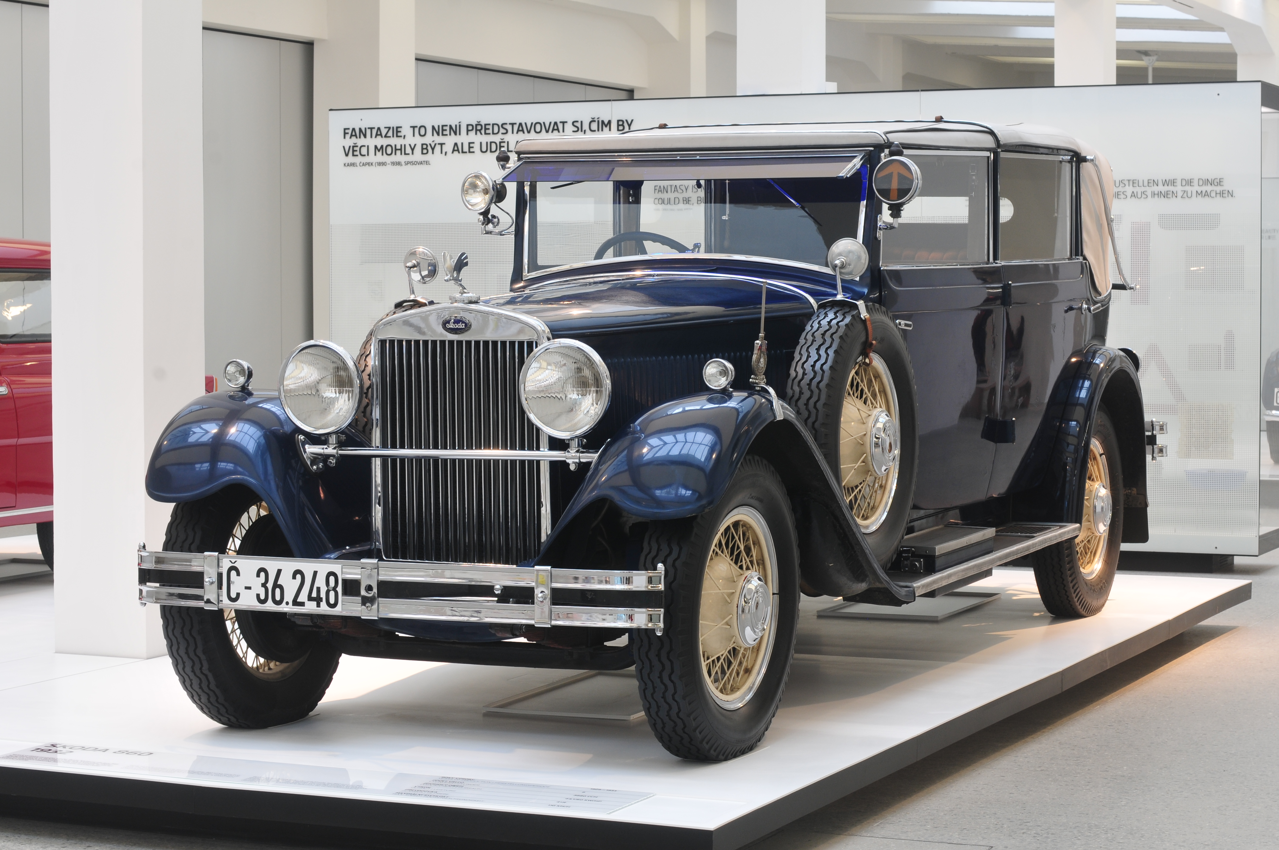 Škoda 860 (1929–1932)